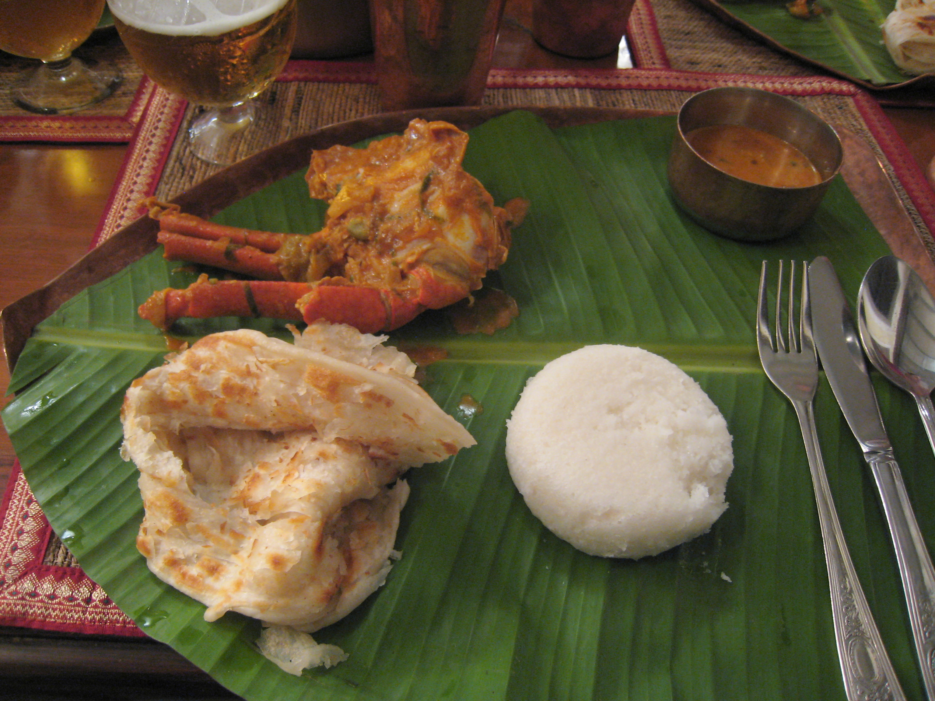 Mangalore Paratha